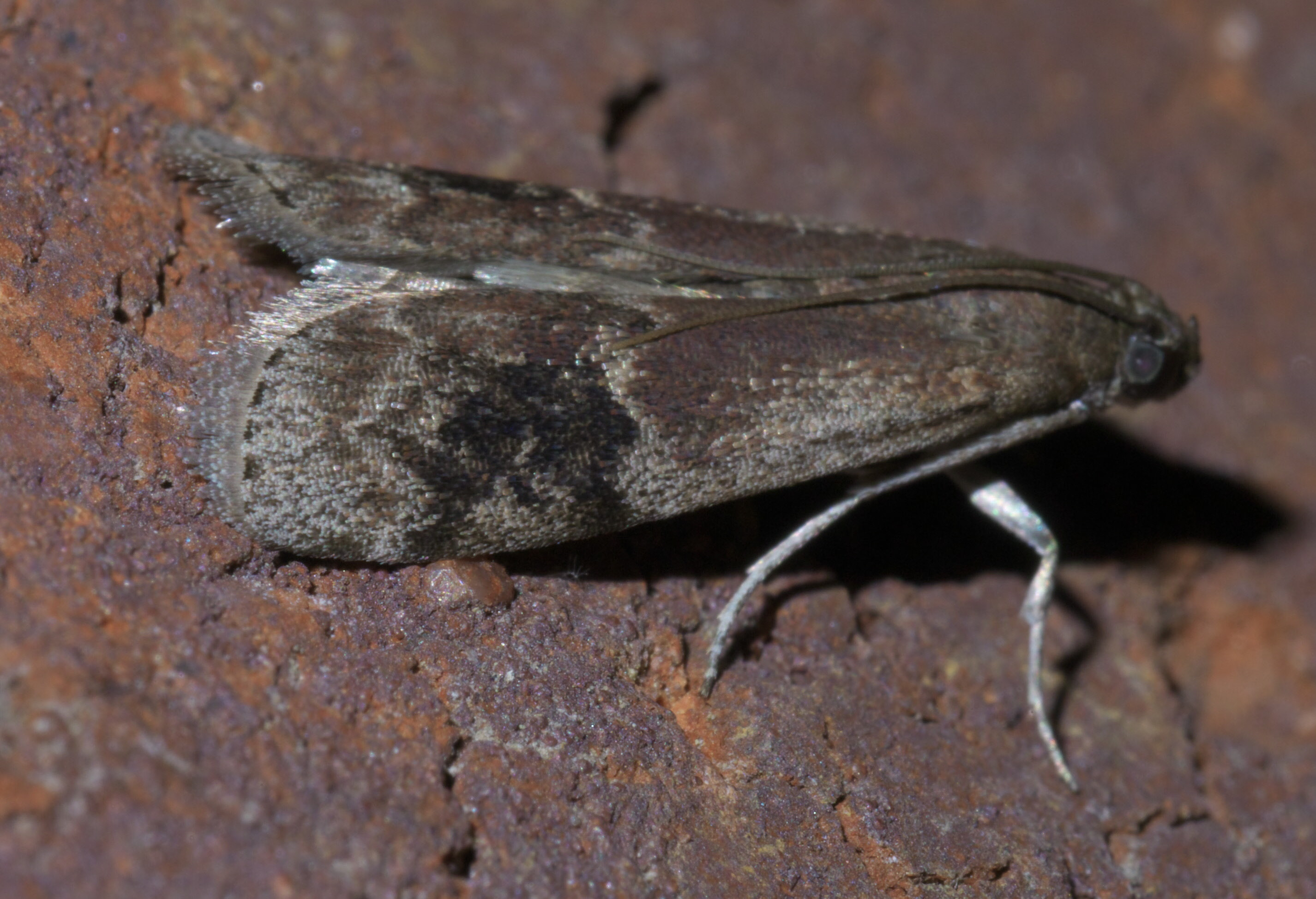 Euzophera semifuneralis, American plum borer, ID Confidence: 90